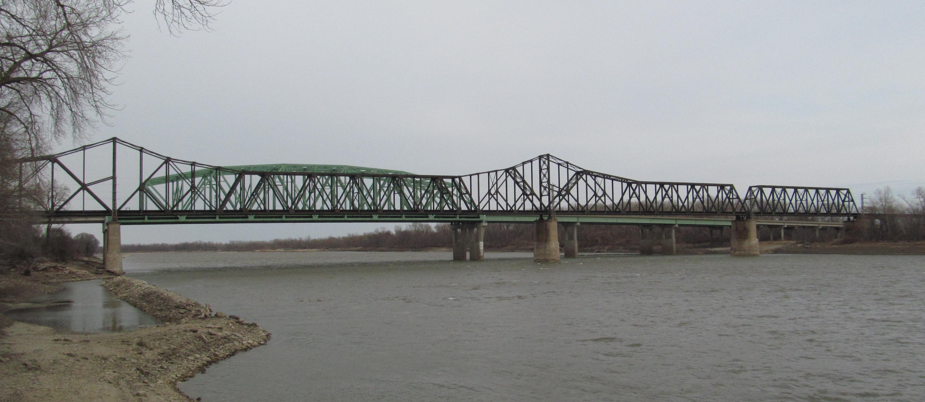 St. Charles, Missouri